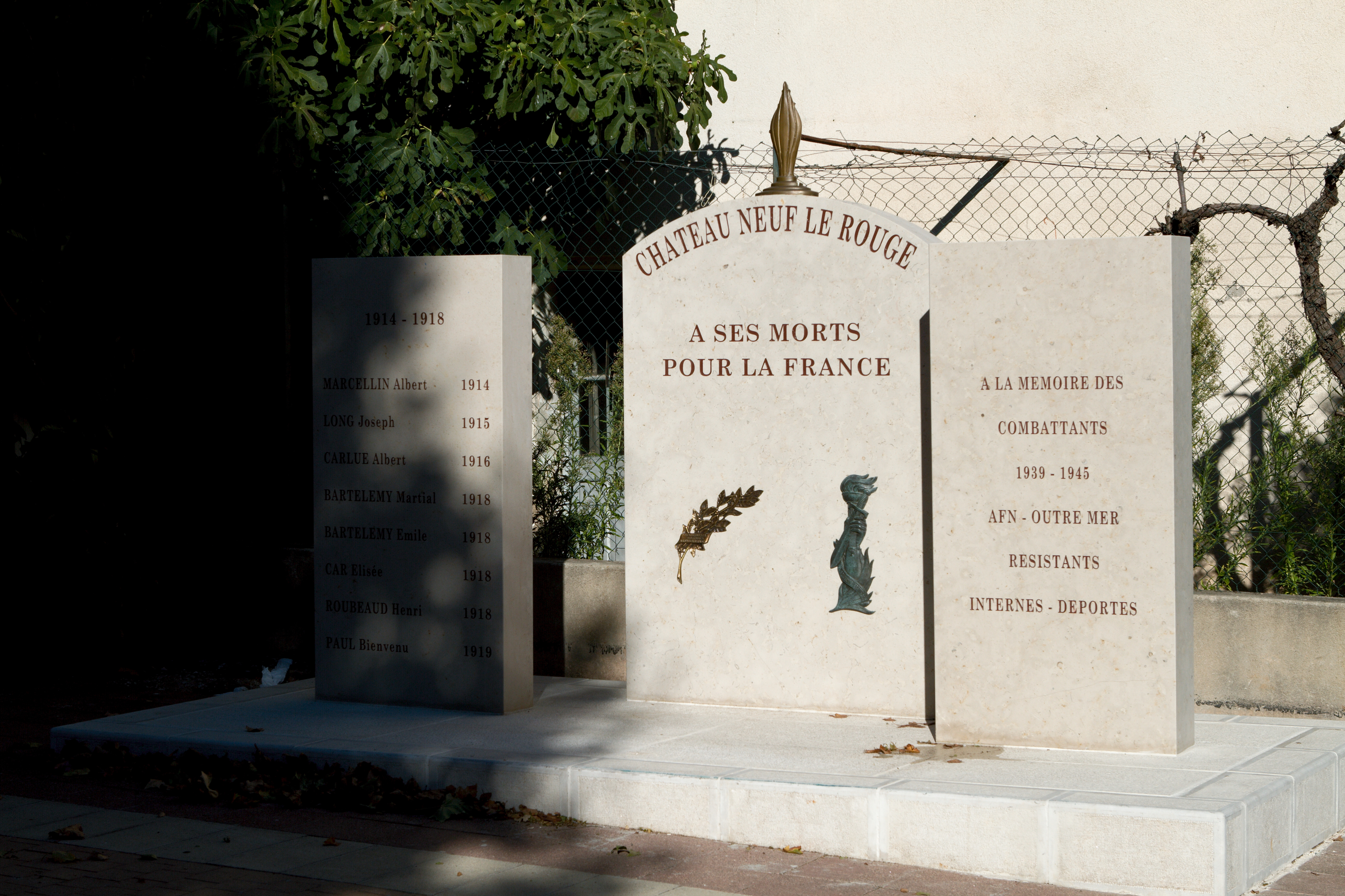 War memorial in Châteauneuf-le-Rouge, Bouches-du-Rhône (France).